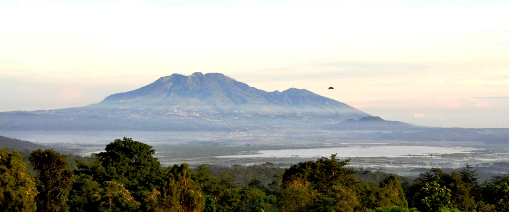 Vista from Salatiga toward Mt Ungaran, showing town of Ambarawa (middle) and Rawa Pening (Pening Lake)